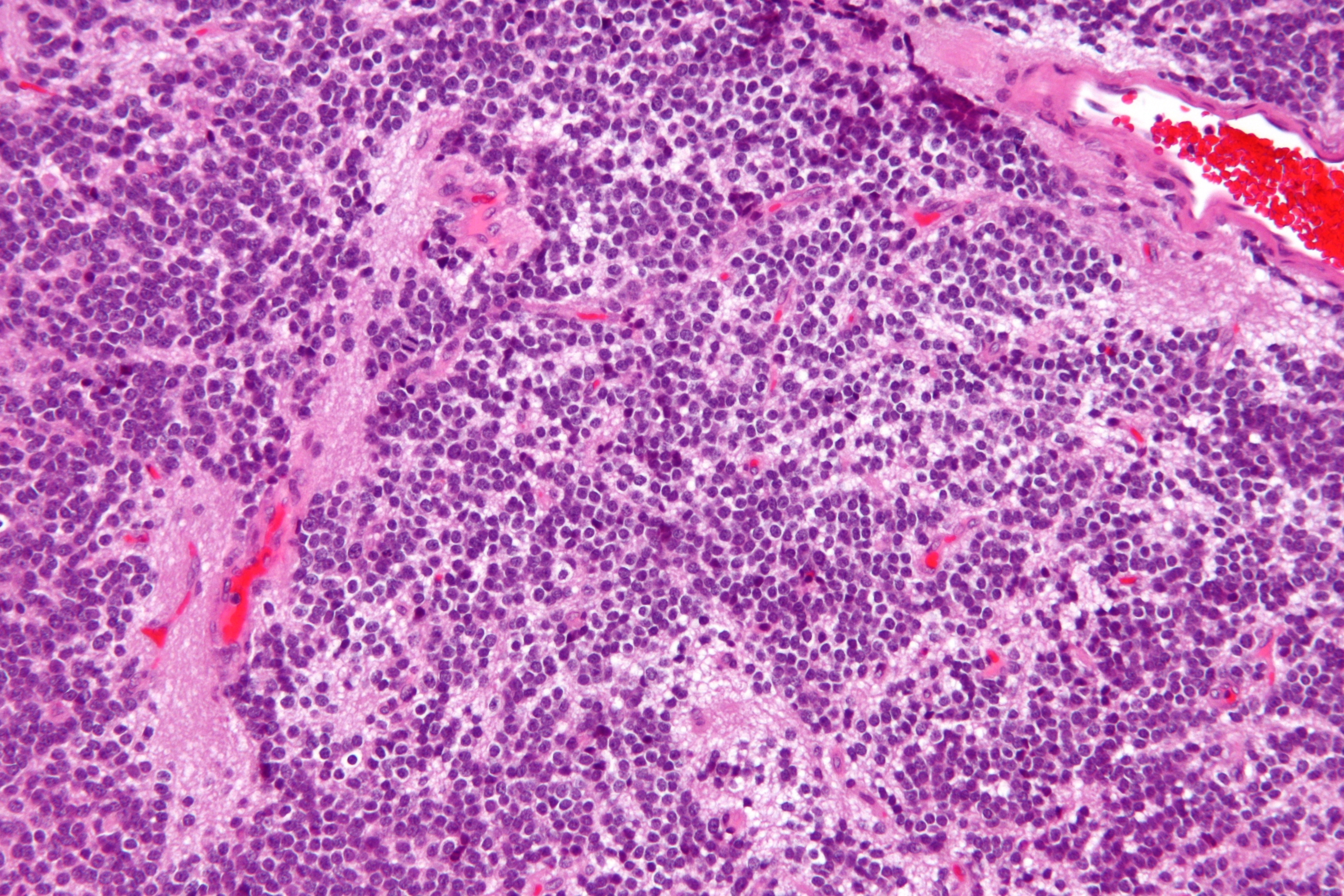 High magnification micrograph of a central neurocytoma. H&E stain. Related images Low mag. Intermed. mag. High mag. Very high mag. Intermed. mag. High mag. Very high mag.